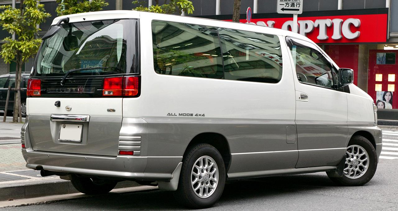 Nissan Elgrand X 4WD 3.2 D Turbo ( AVWE50 )